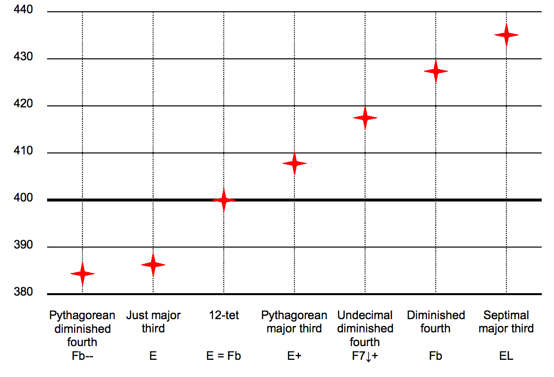 Comparison of notes derived from and near one major third. In meantone the major third may be 379 cents.(Rosand, Ellen (1985). Baroque Music, p.89. ISBN 9780824074555.) The "small (major) third" is 11:9 (347.41 cents).(Strange, Patricia and Strange; Allen (2001). The Contemporary Violin: Extended Performance Techniques, p.146. ISBN 9780520224094.) The Pythagorean diminished fourth (F♭--) may be considered a small major third (8192:6561 = 384.36 cents).(Link, John W. (1977). The mathematics of music, p.80. ) Ratios: E: 9 : 7 = 435.08 F♭: 32 : 25 = 427.37 F↓+: 14 : 11 = 417.51 E+: 81 : 64 = 407.82 E: 24/12 : 1 = 400 E: 5 : 4 = 386.31 F♭--: 8192 : 6561 = 384.36 ?: 11 : 9 = 347.41